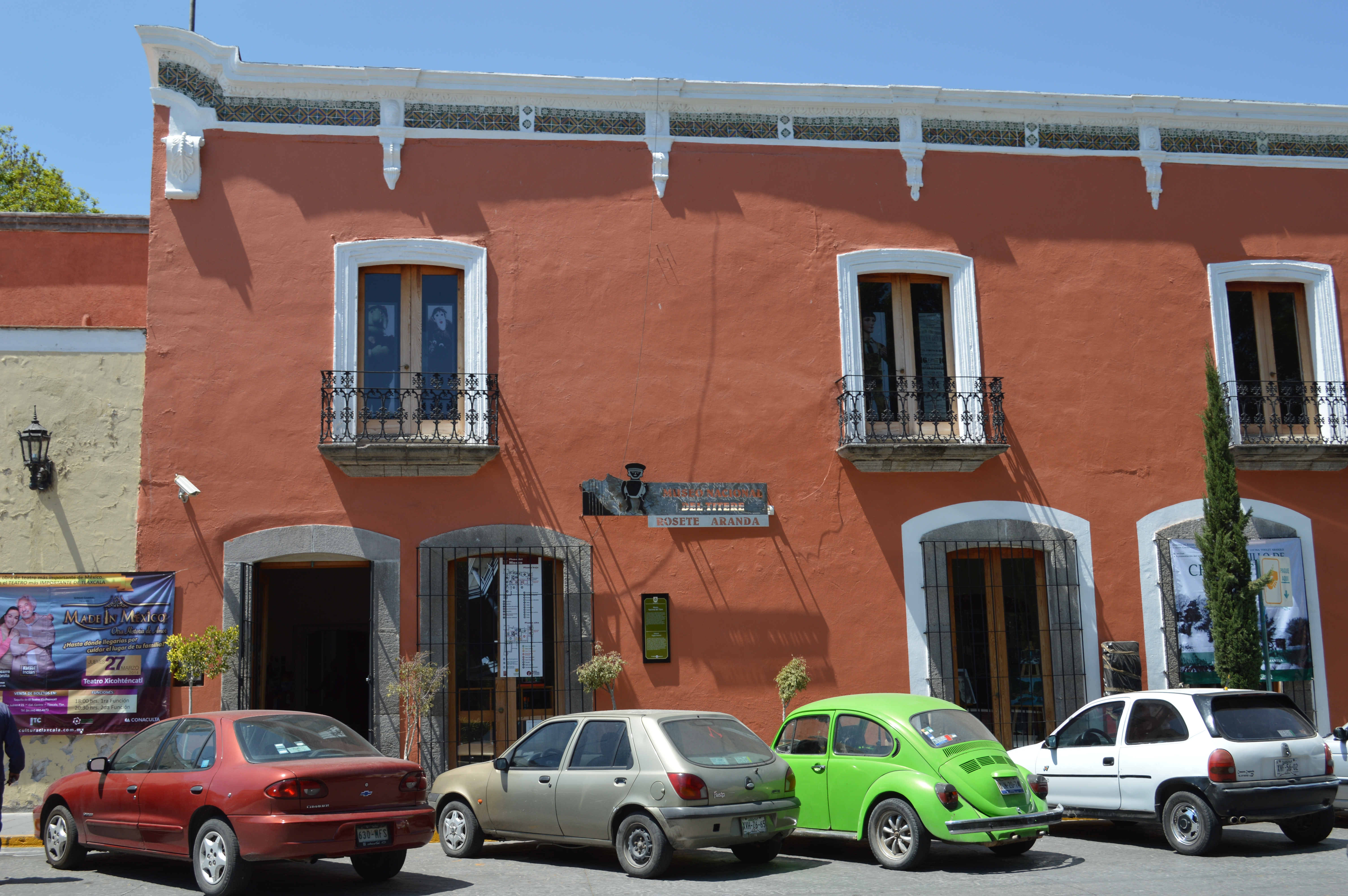 Facade of Mexico's national puppet museum in Huamantla, Tlaxcala, Mexico